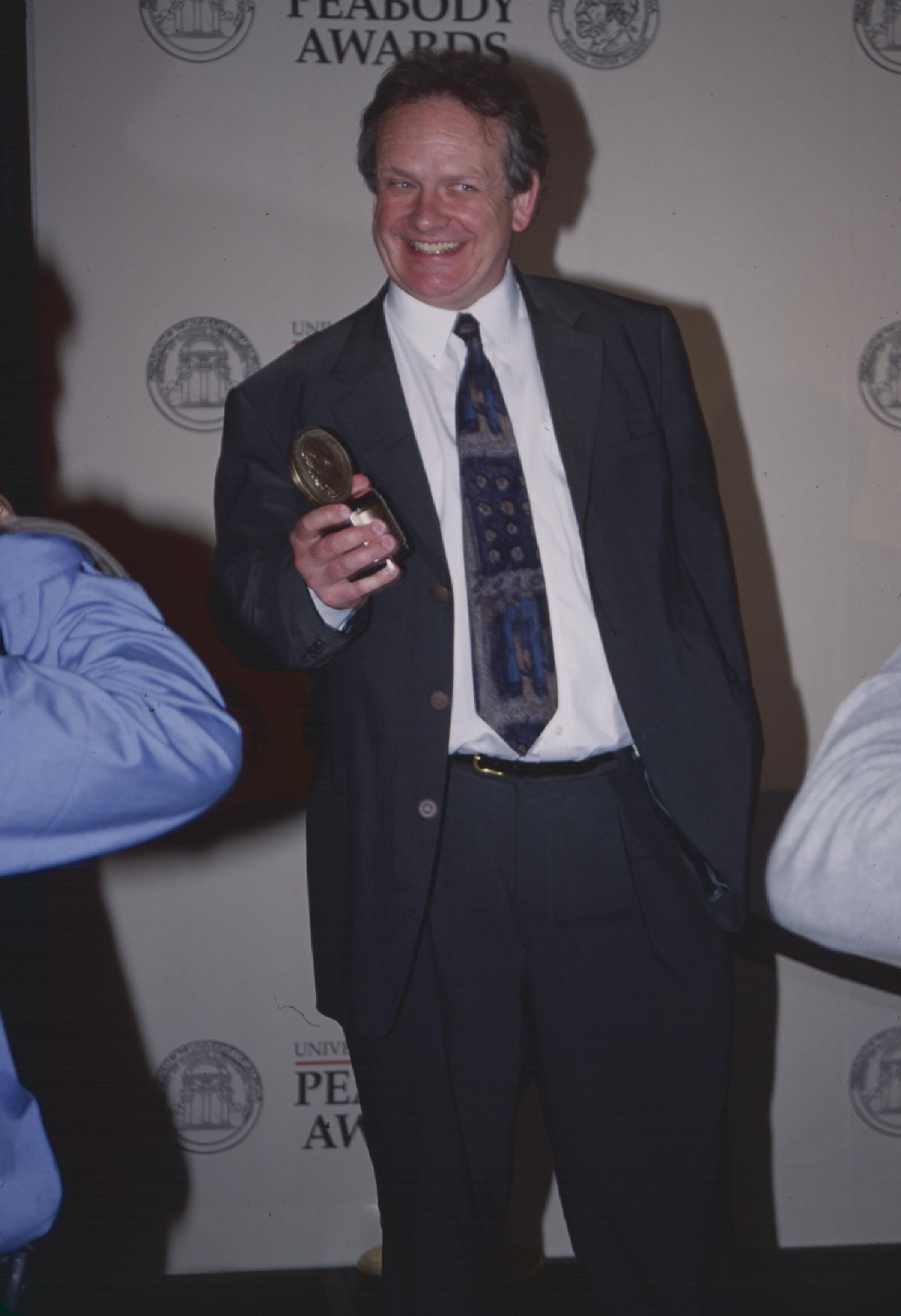 Photos by Patrick McMullan George Carey (filmmaker), The 59th Annual Peabody Awards The Waldorf=Astoria